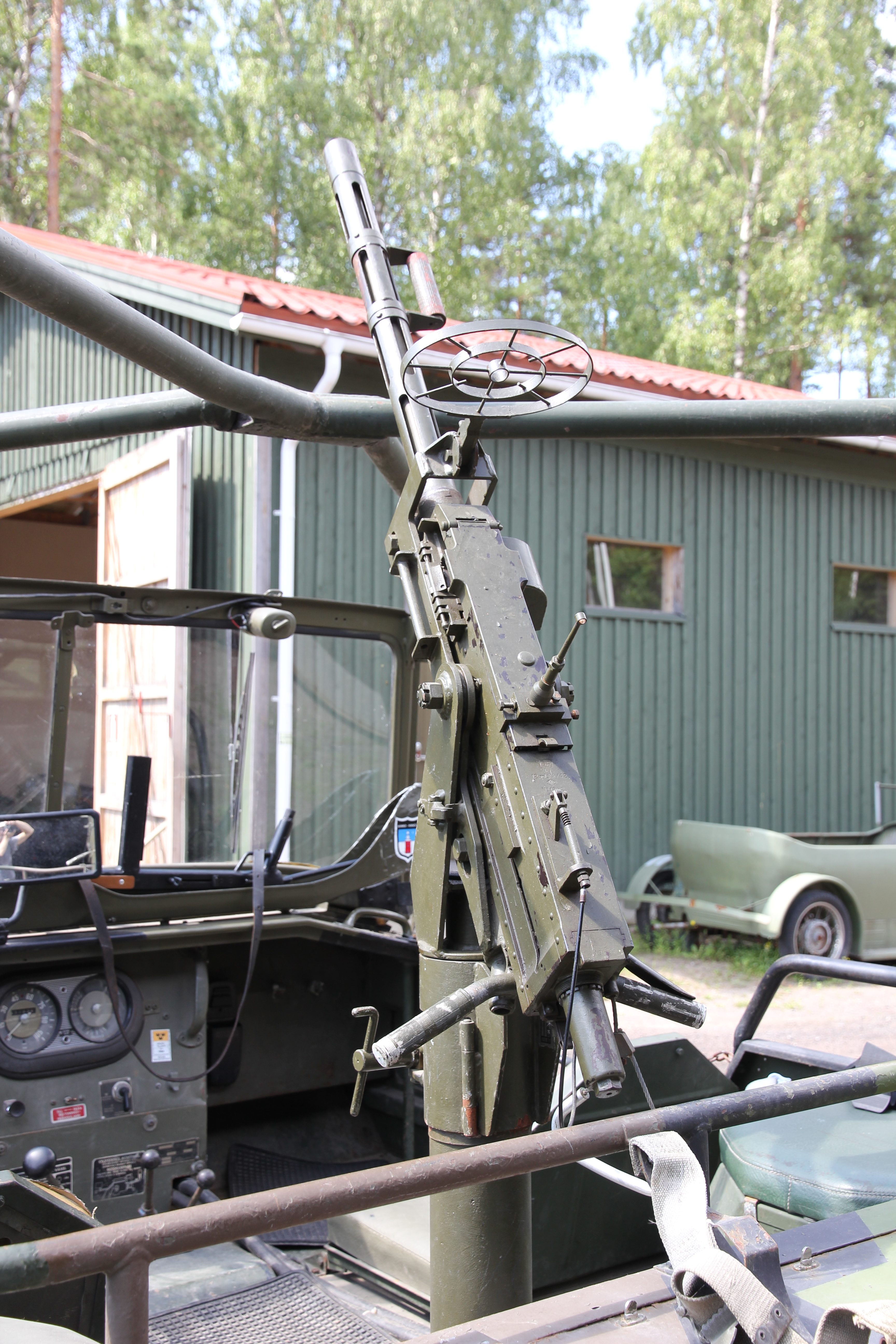 Finnish 12,7 Lkk/42 VKT machine gun, a World War 2 copy of Browning M2 in the Cannons of Torp museum. This museum machine gun is mounted on Volvo L3304, but it is very unlikely such a combination has actually been used.